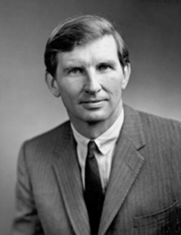 Joseph D. Tydings, former member of the United States Senate from Maryland.